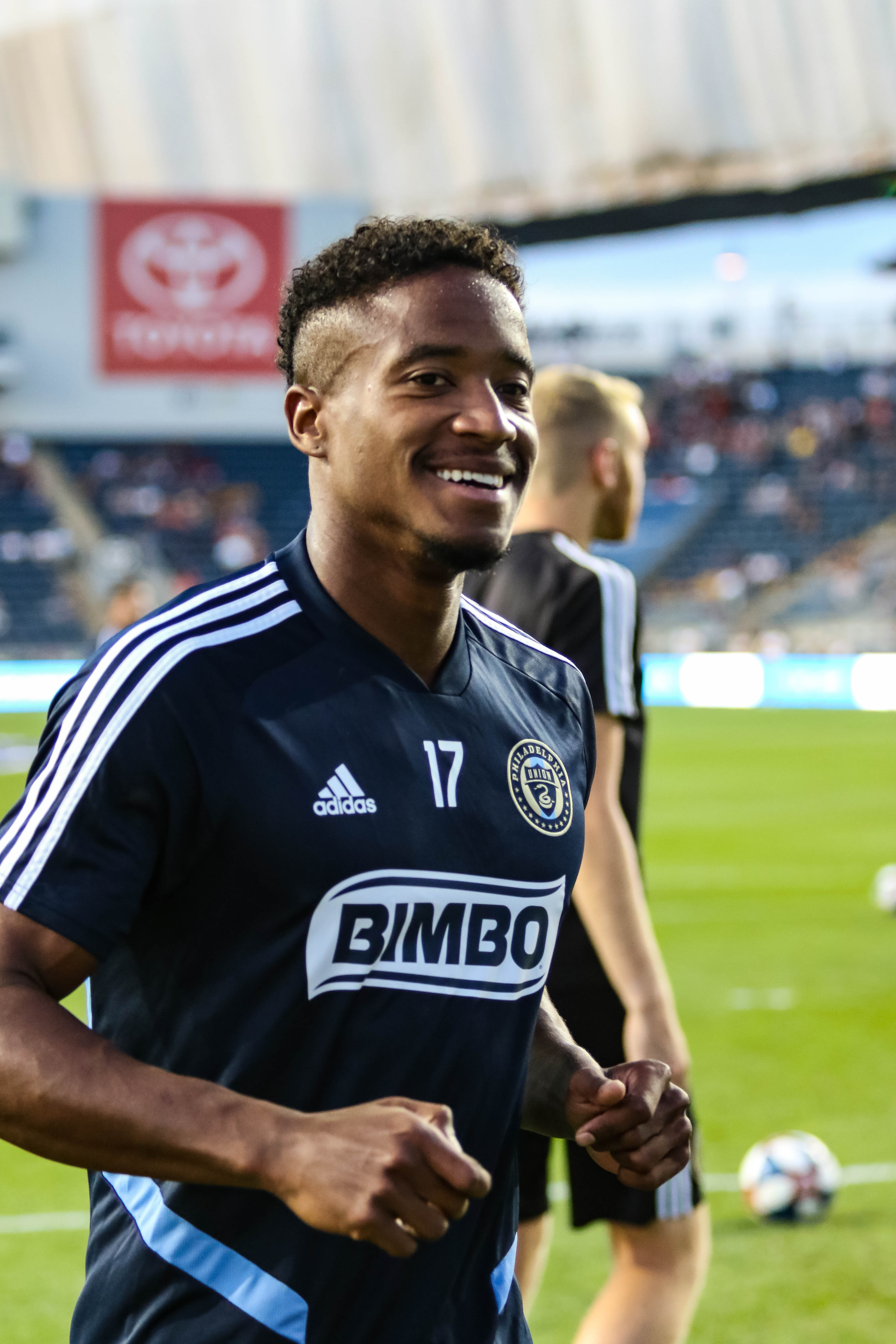 Sergio Santos playing for Philadelphia Union.